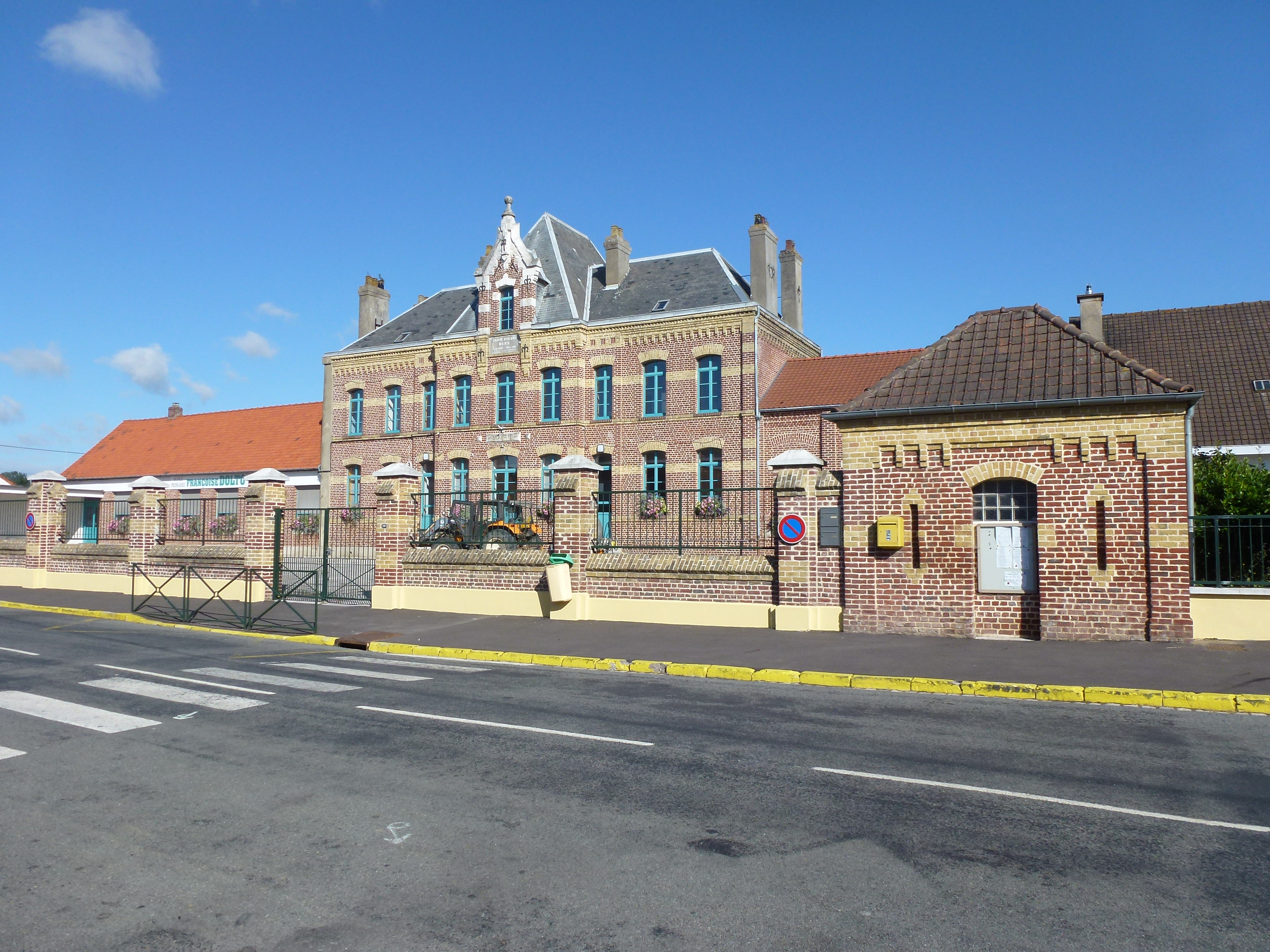 Helfaut (Pas-de-Calais, Fr) mairie et écoles